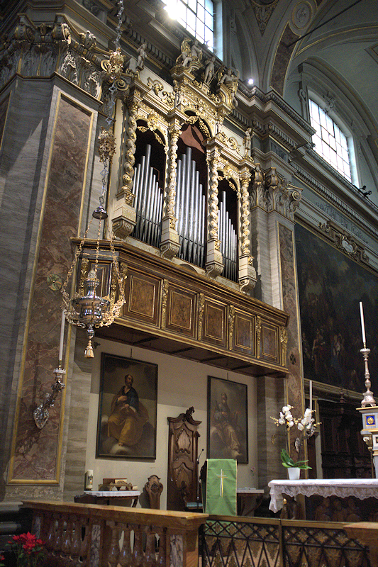 Church of San Benedetto in Crema (Italy): presbitery, left side